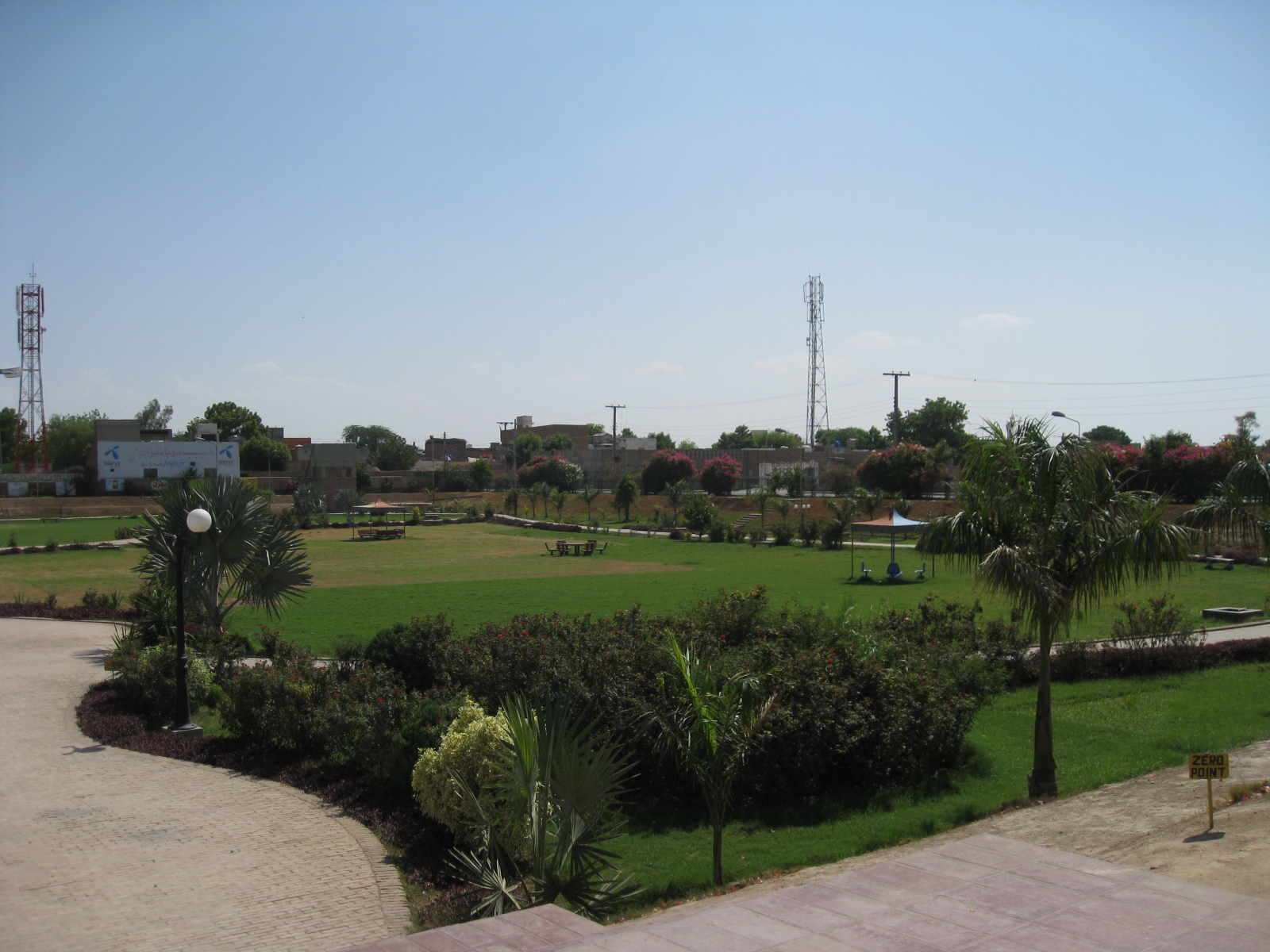 Allama Iqbal Park, Hasilpur